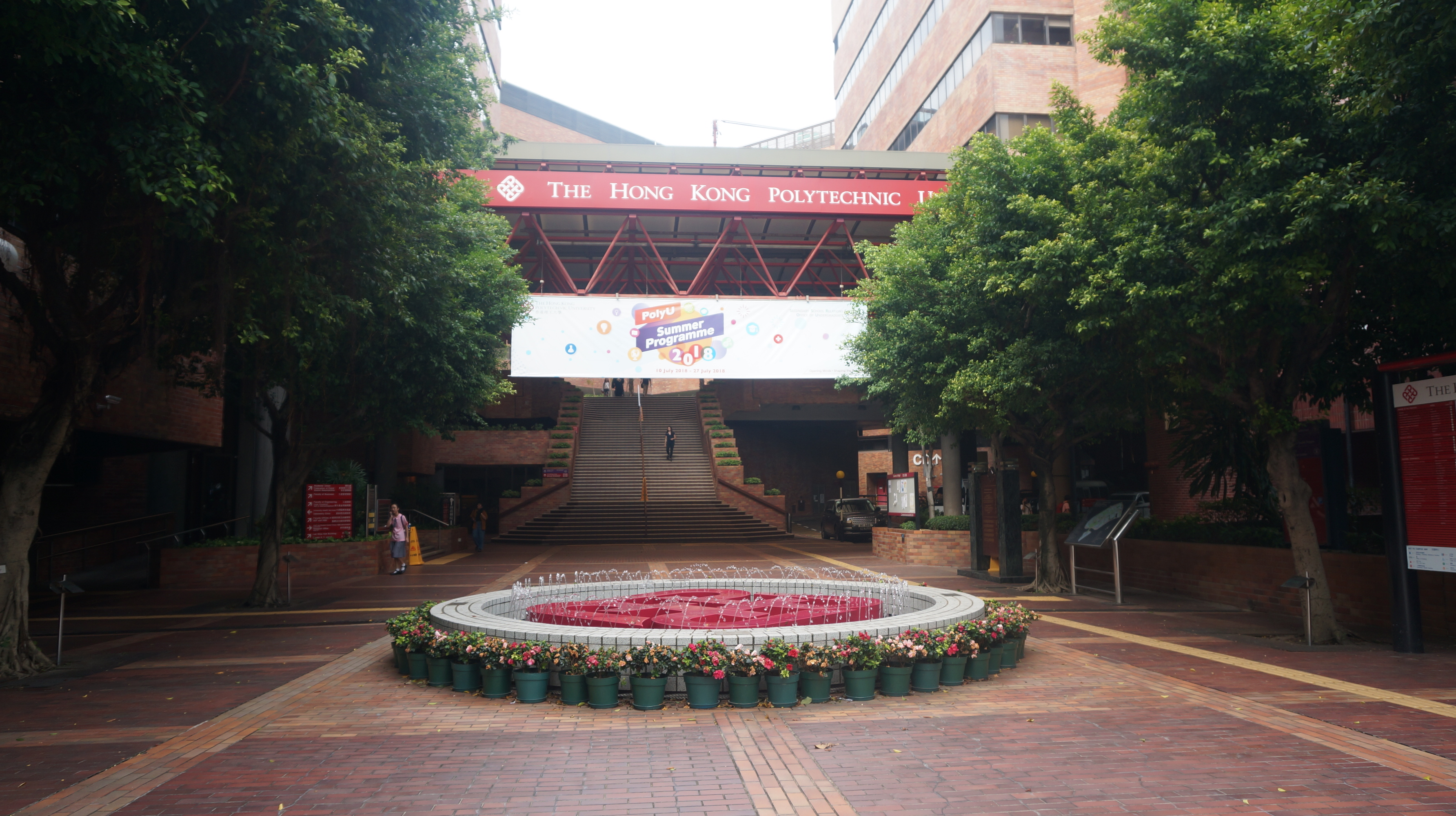 HKPU Cheong Wan Road Entrance